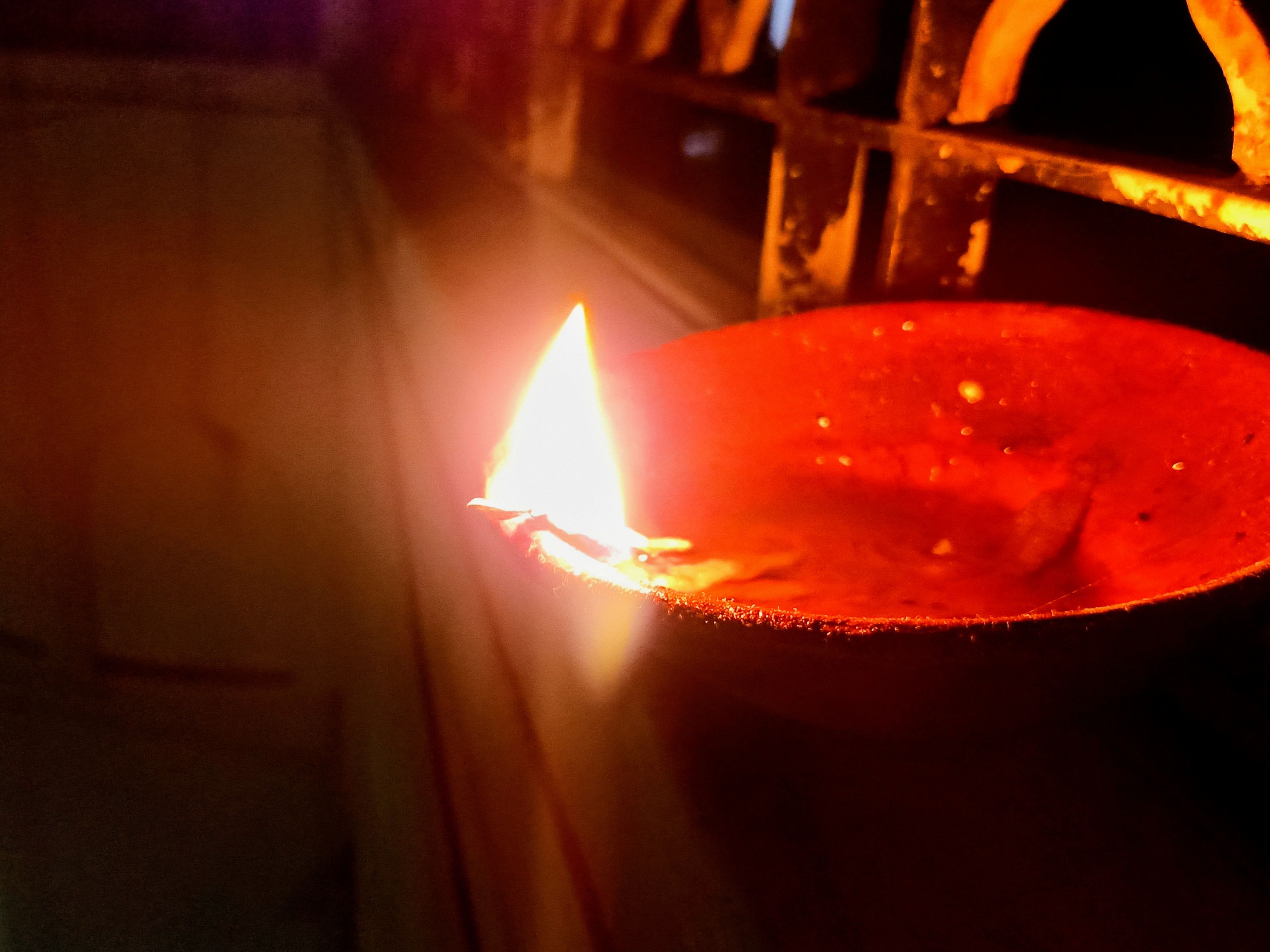 Deepak for the solidarity of the country India